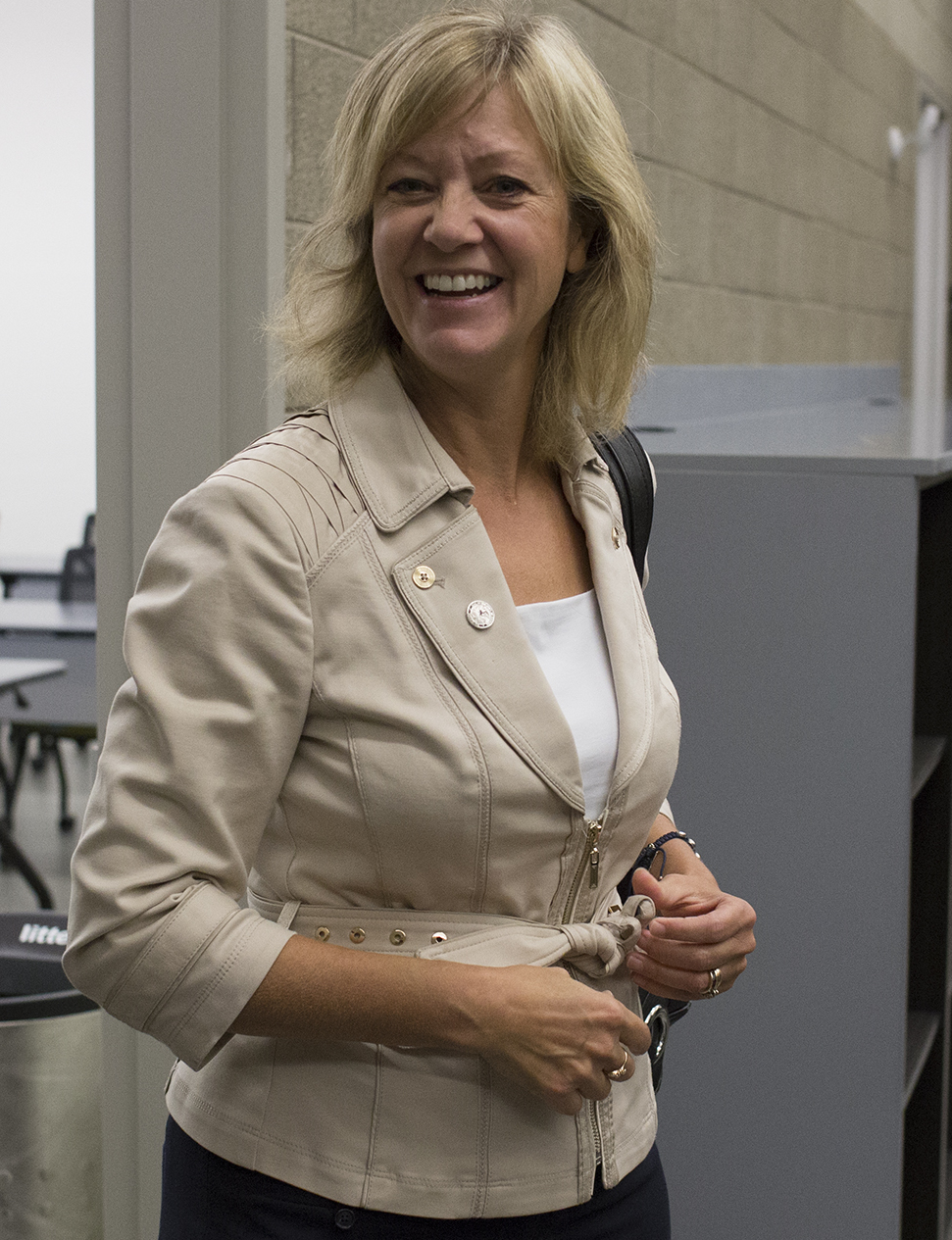 Approximately 100 attendees visited COD’s Glen Ellyn campus to celebrate the opening of the College’s state-of-the-art Homeland Security Training Center.